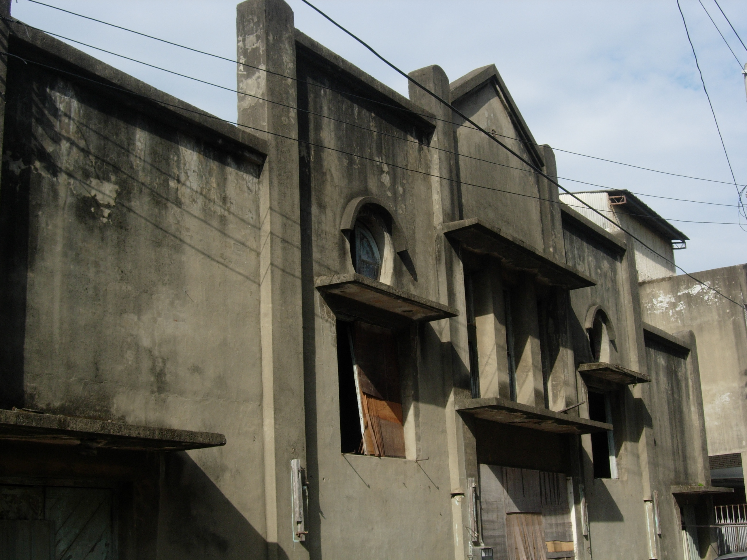 Hsinpu Theater中文（台灣）: 新埔鎮老戲院